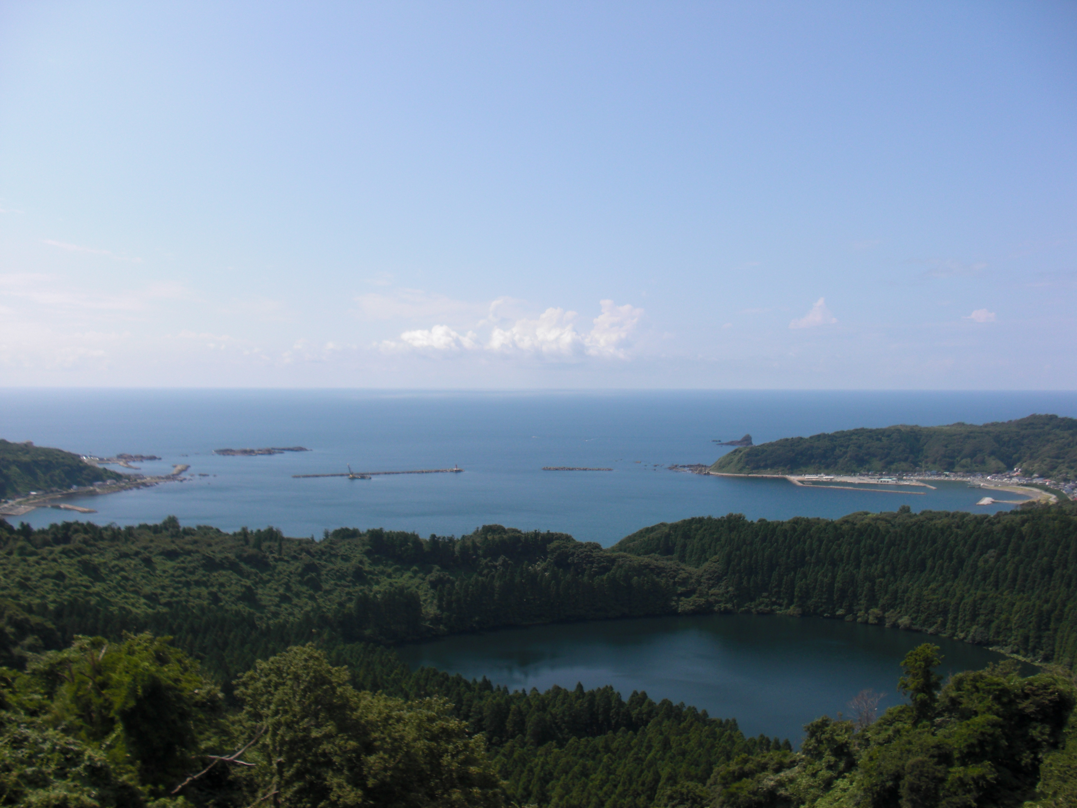 Ninomegata Maar and Toga port from Hachibodai at Oga, Akita, Japan.